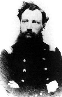 Alexander Schimmelfennig, "Forty-Eighter" and later Union General during the civil war.